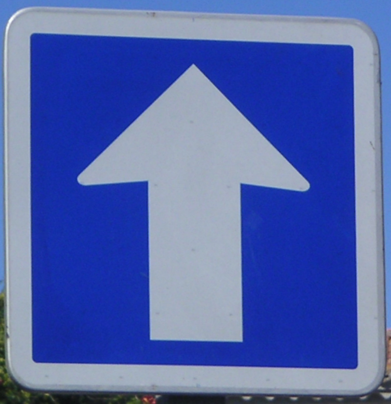 French road sign for one-way road